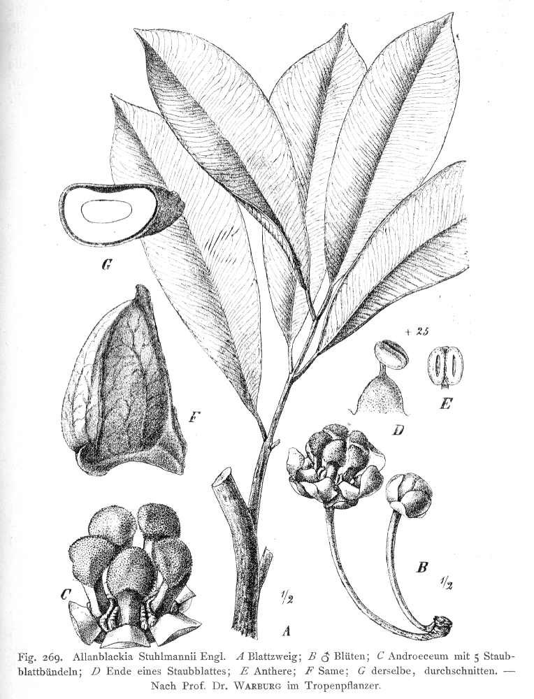 Allanblackia stuhlmannii (Clusiaceae), from Vegetation der Erde (1910) Vol. 9. Band 1. Fig. 269. by Adolf Engler (1844-1930)